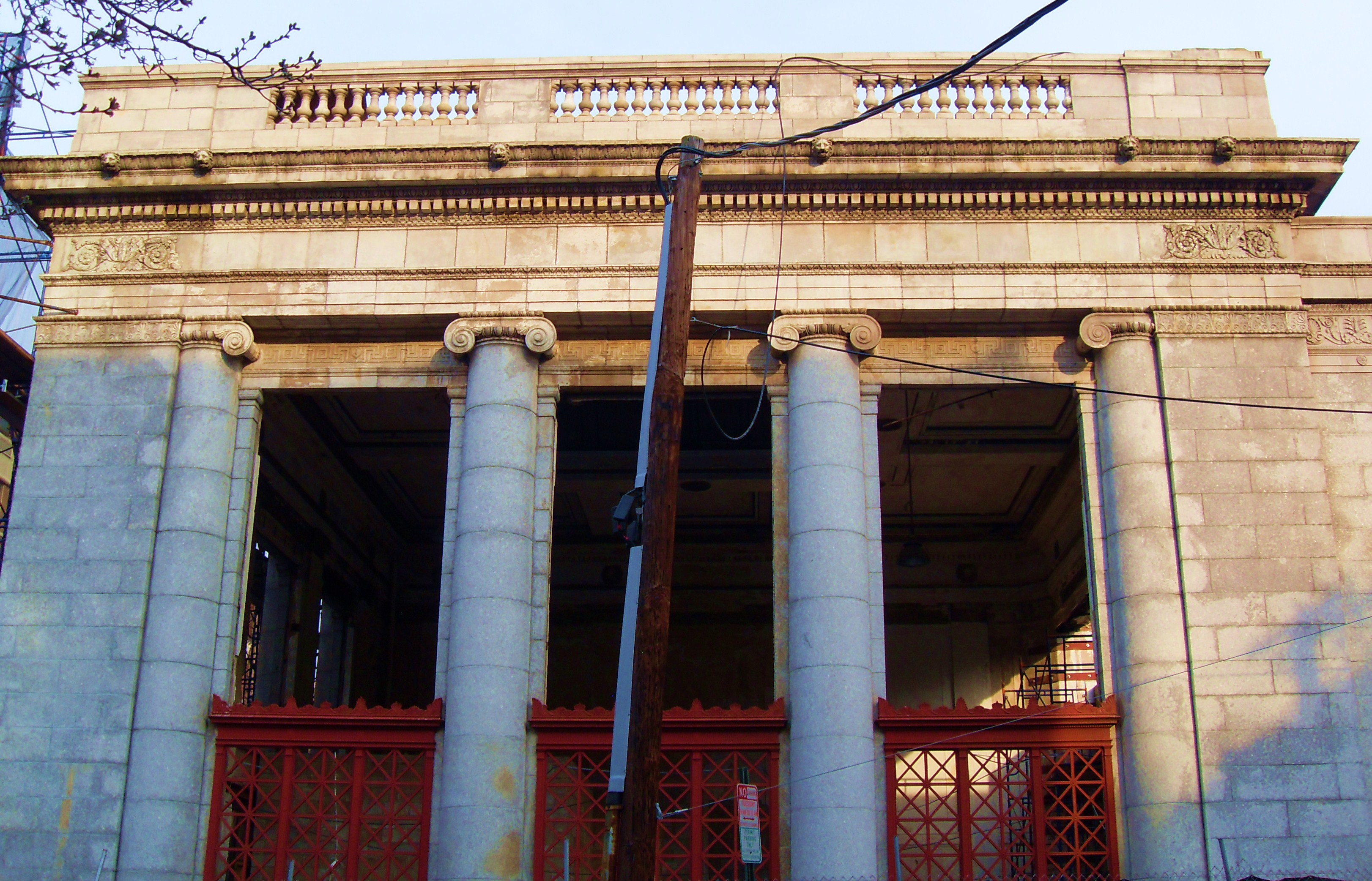 Jefferson Trust Company in Hoboken, New Jersey Object location40° 44′ 15″ N, 74° 02′ 09″ W